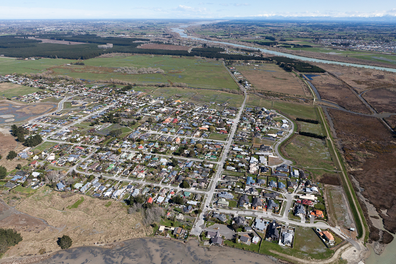 Aerial photo of Brooklands two days after the September 2010 earthquake, with liquefaction quite visible.